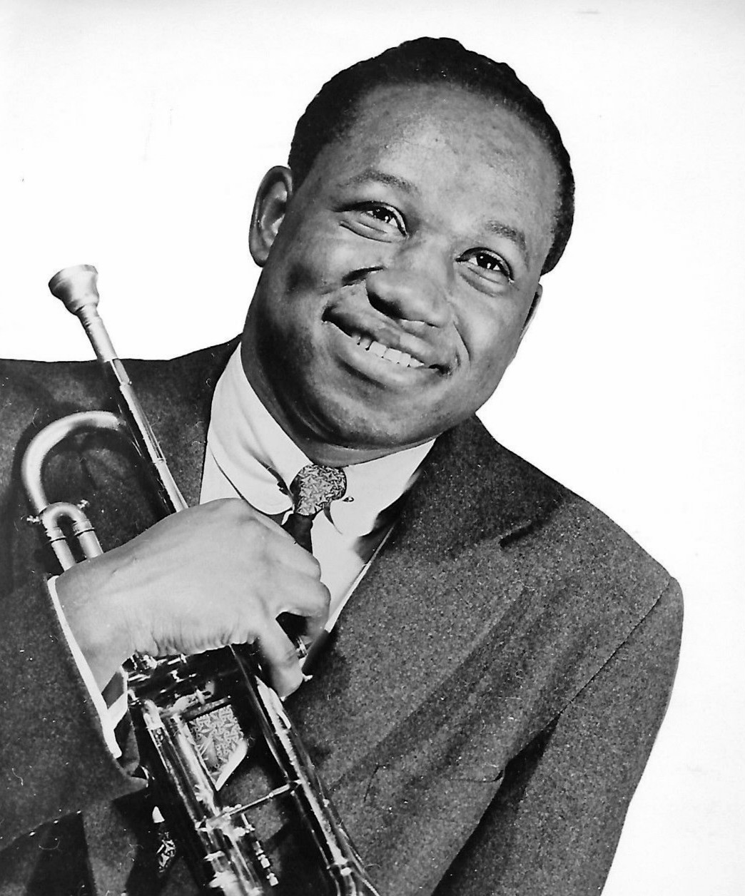 Photo of jazz trumpeter Clifford Brown.